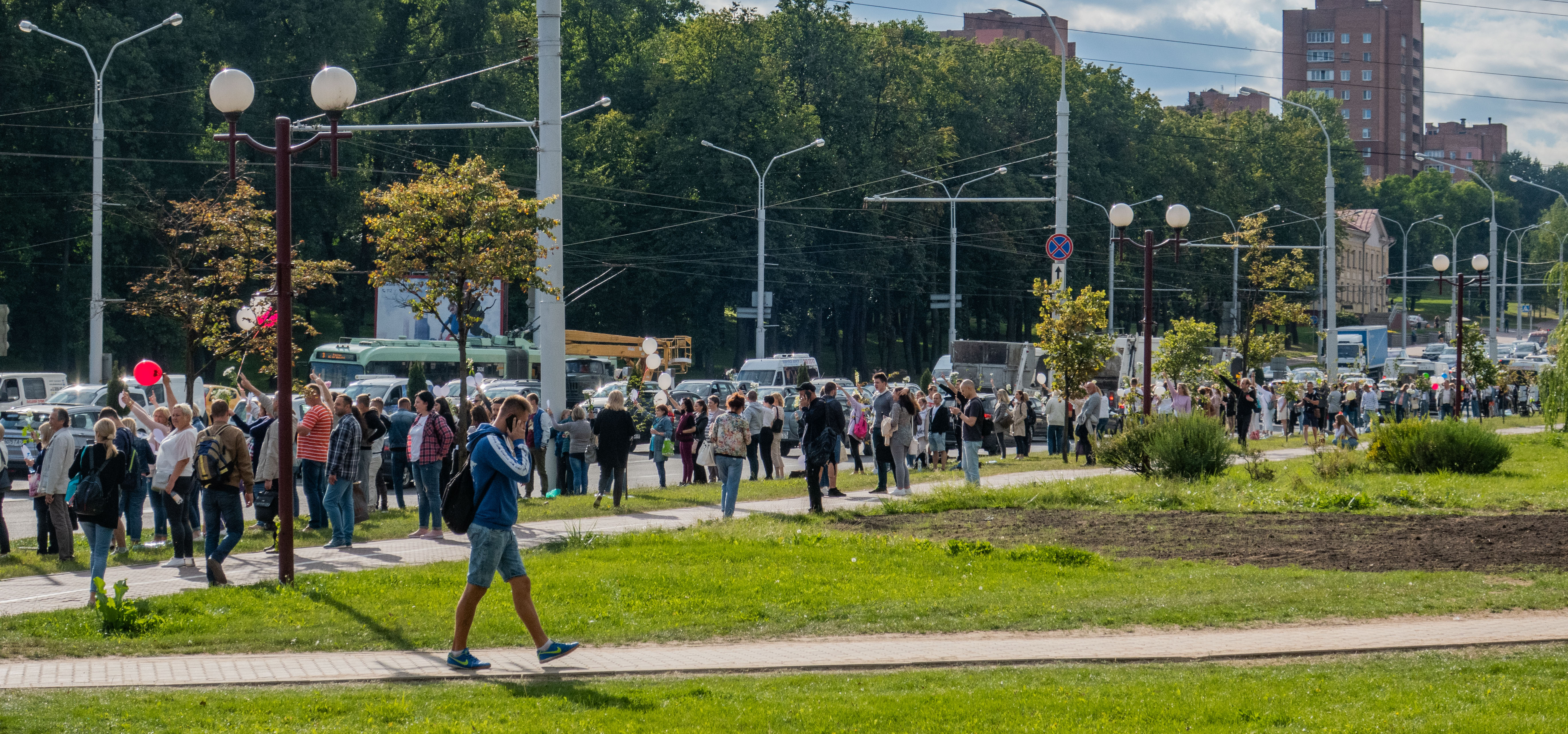 Local line of solidarity during mass protests. Minsk, Belarus